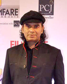 The Indian singer Mohit Chauhan at the 59th Idea Filmfare Awards 2013